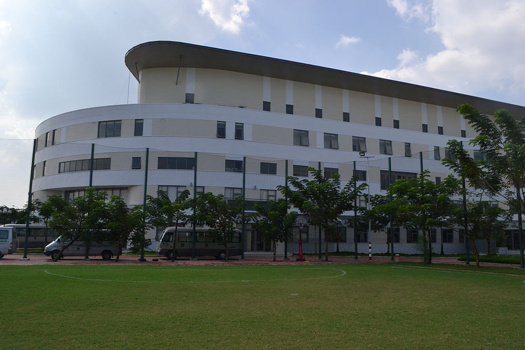 BVIS HCMC